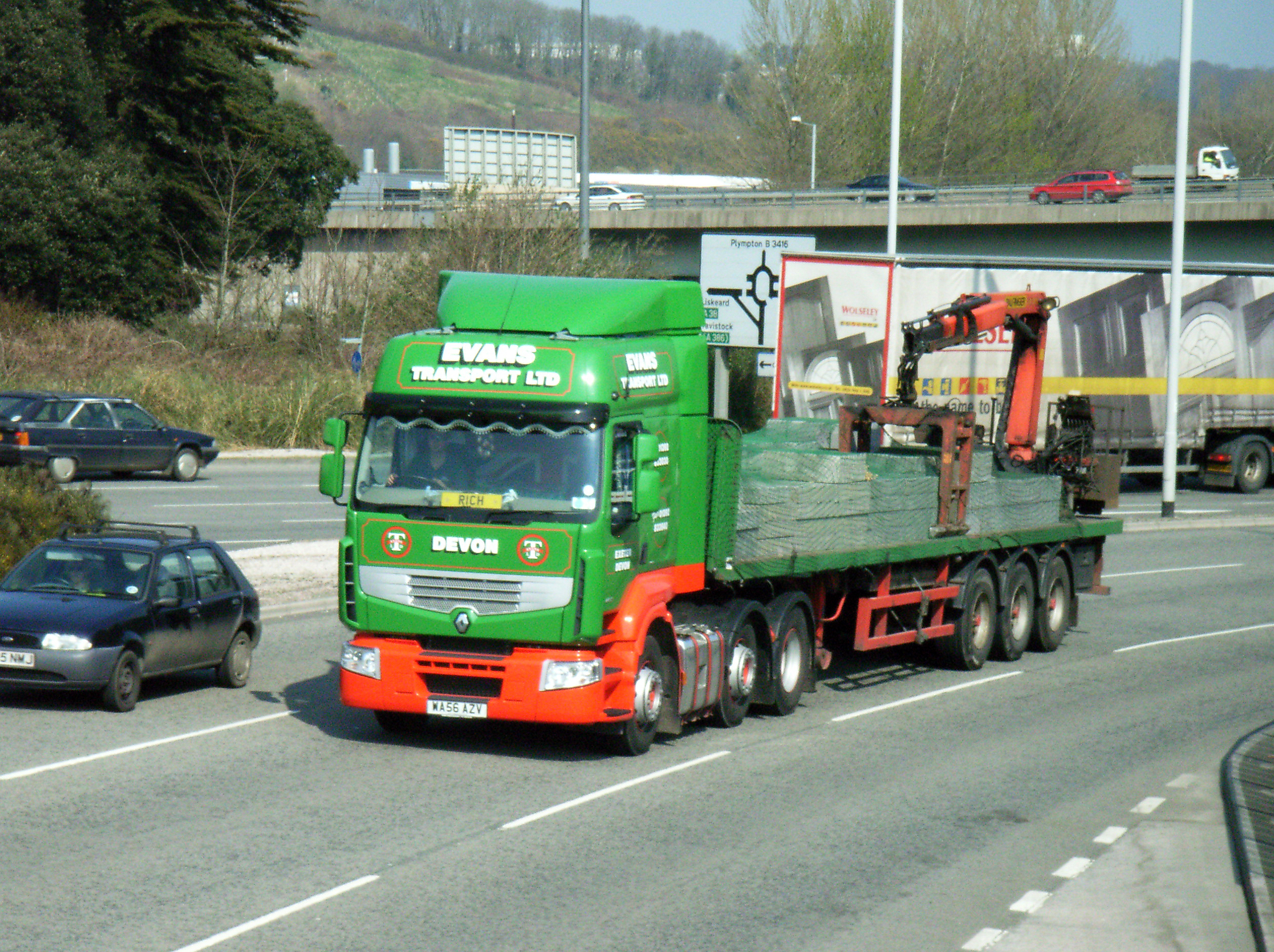 RENAULT PREMIUM TRACTOR 10837cc (23/09/2006) DIESEL